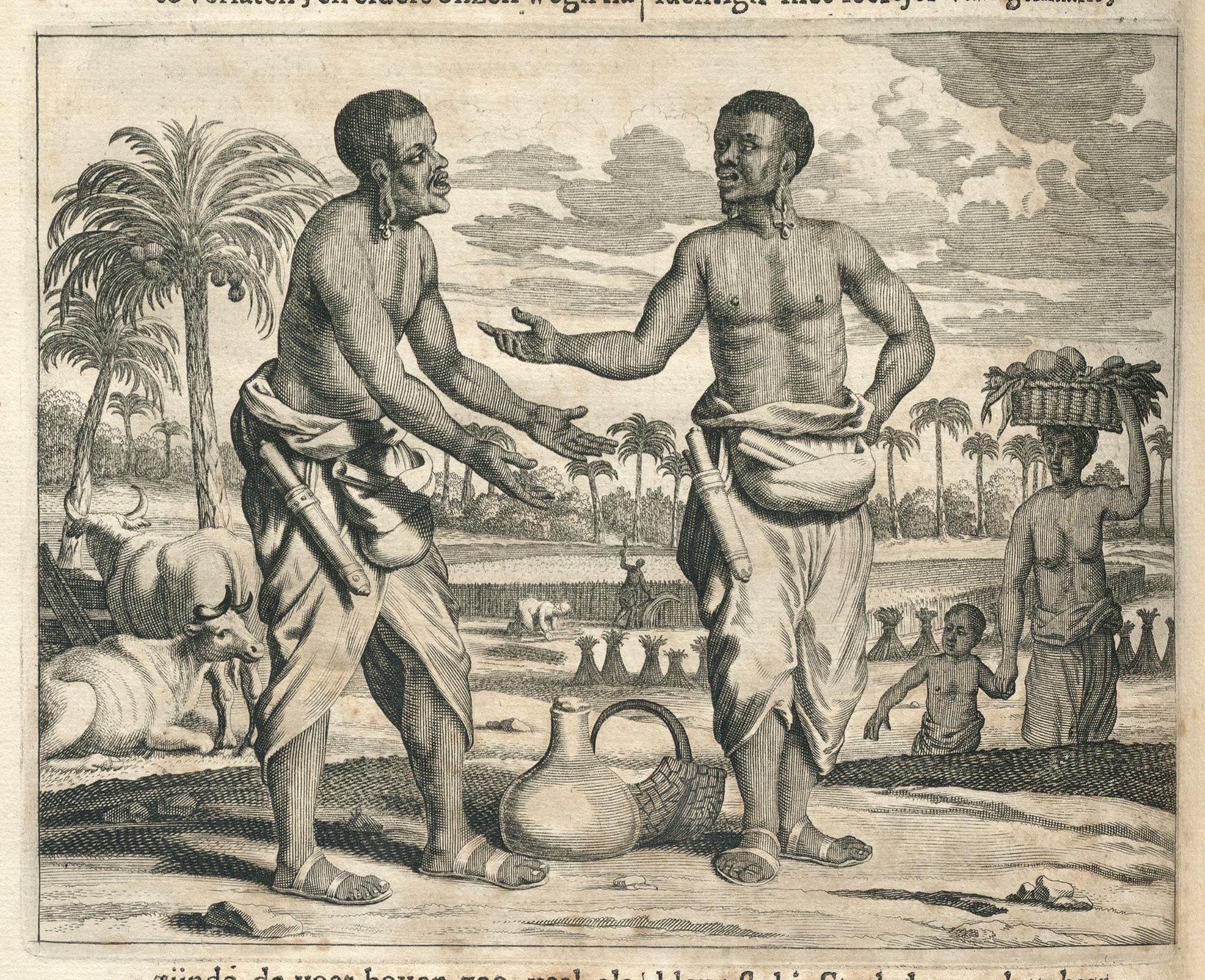 Inhabitants of Jaffnapatnam. The earlobes of the men pictured in the foreground have been stretched by jewellery. Grain is being scythed in the background.